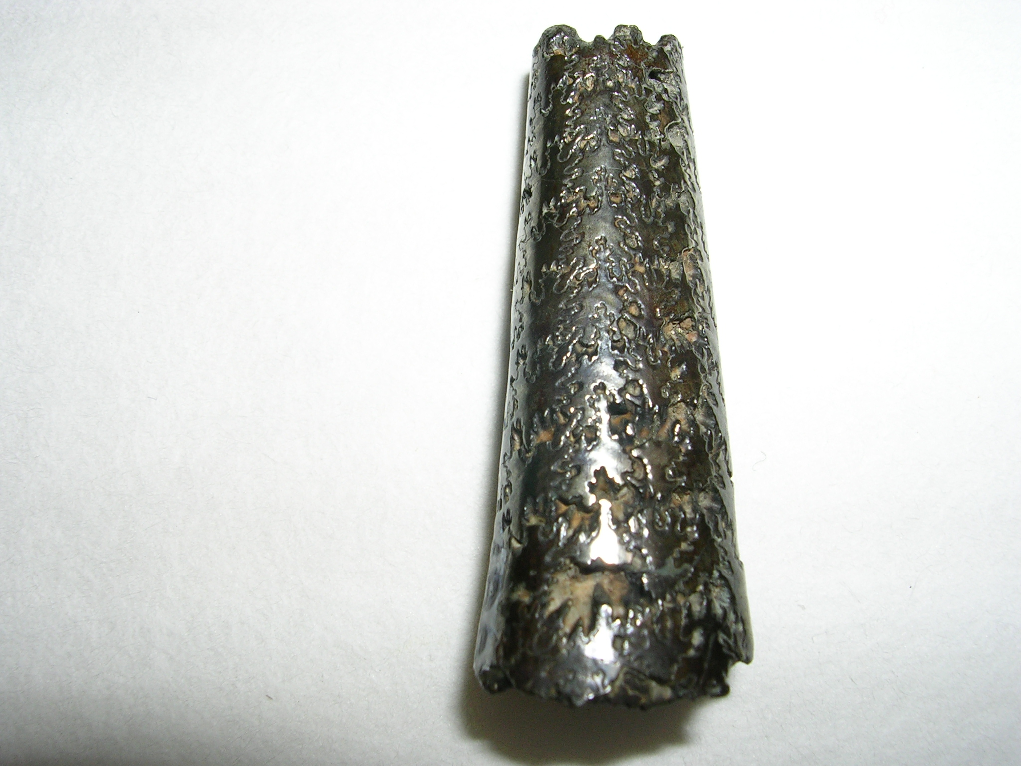 Baculites sp. fossil (Late Cretaceous) founded in South Dakota, in a laboratory of practices of the Faculty of Sciences of the University of Corunna.